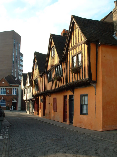 View southwest along Silent Street, Ipswich, Suffolk. The orange building in the foreground is nos. 3–9 Silent Street. The pale building beyond it is 45 and 45A, St Nicholas Street.